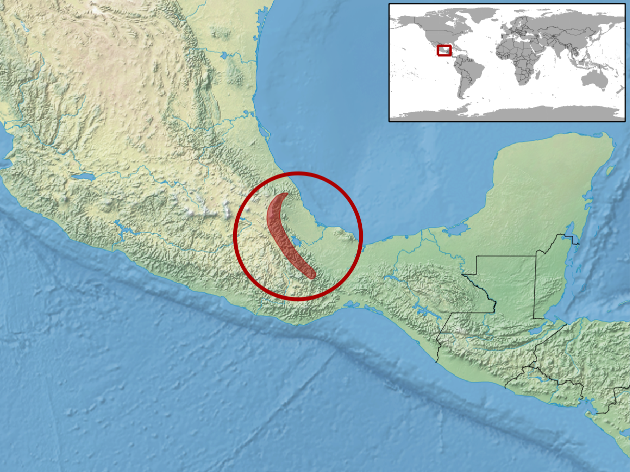 geographic distribution of Celestus enneagrammus (Native: Mexico)